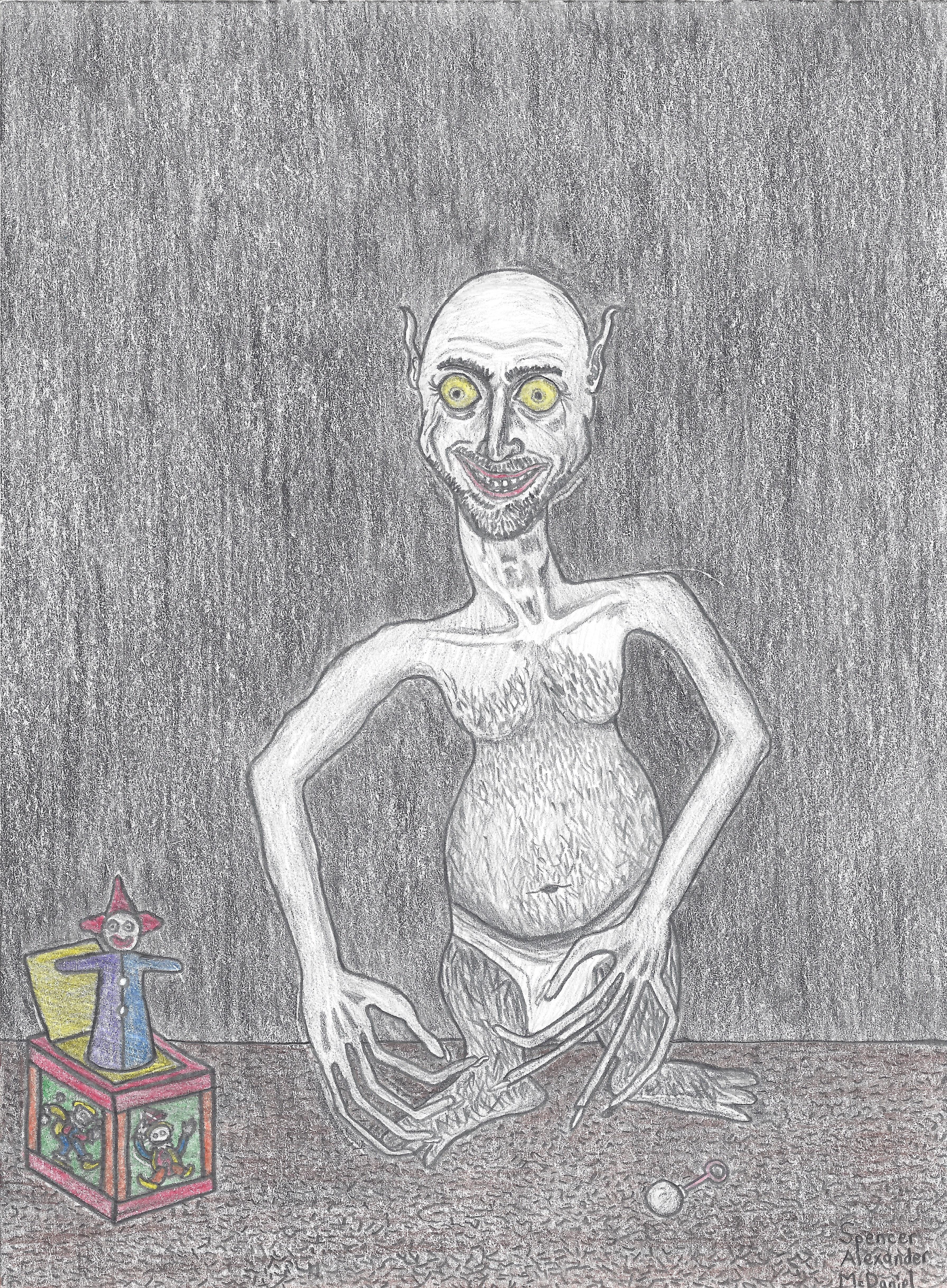 This is an imaginative pencil illustration of a boggart, a creature from English and Scottish folklore that is said to cause all kinds of mischief in people's homes, drawn in 2018 by Spencer Alexander McDaniel. This particular illustration is based in part on a folkloric description of a boggart from T. Sternberg's 1851 book Dialect and Folk-lore of Northhamptonshire as "a squat hairy man, strong as a six year old horse, and with arms almost as long as tacklepoles." This illustration also draws some loose, secondary inspiration from the illustrations of boggarts in the 2005 children's book Arthur Spiderwick's Field Guide to the Fantastical World Around You by Tony DiTerlizzi and Holly Black.